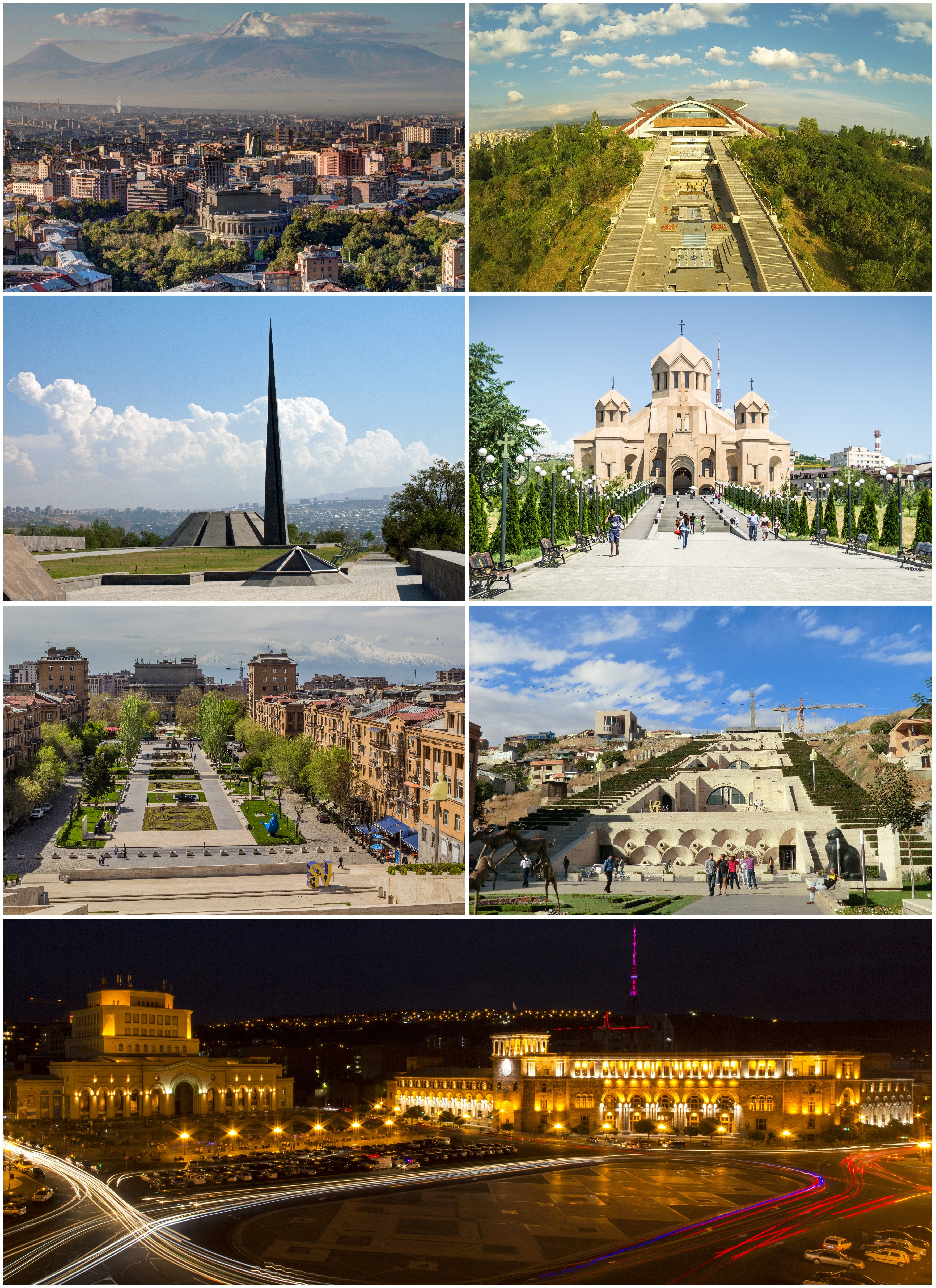 Montages of photos of Yerevan, Armenia.